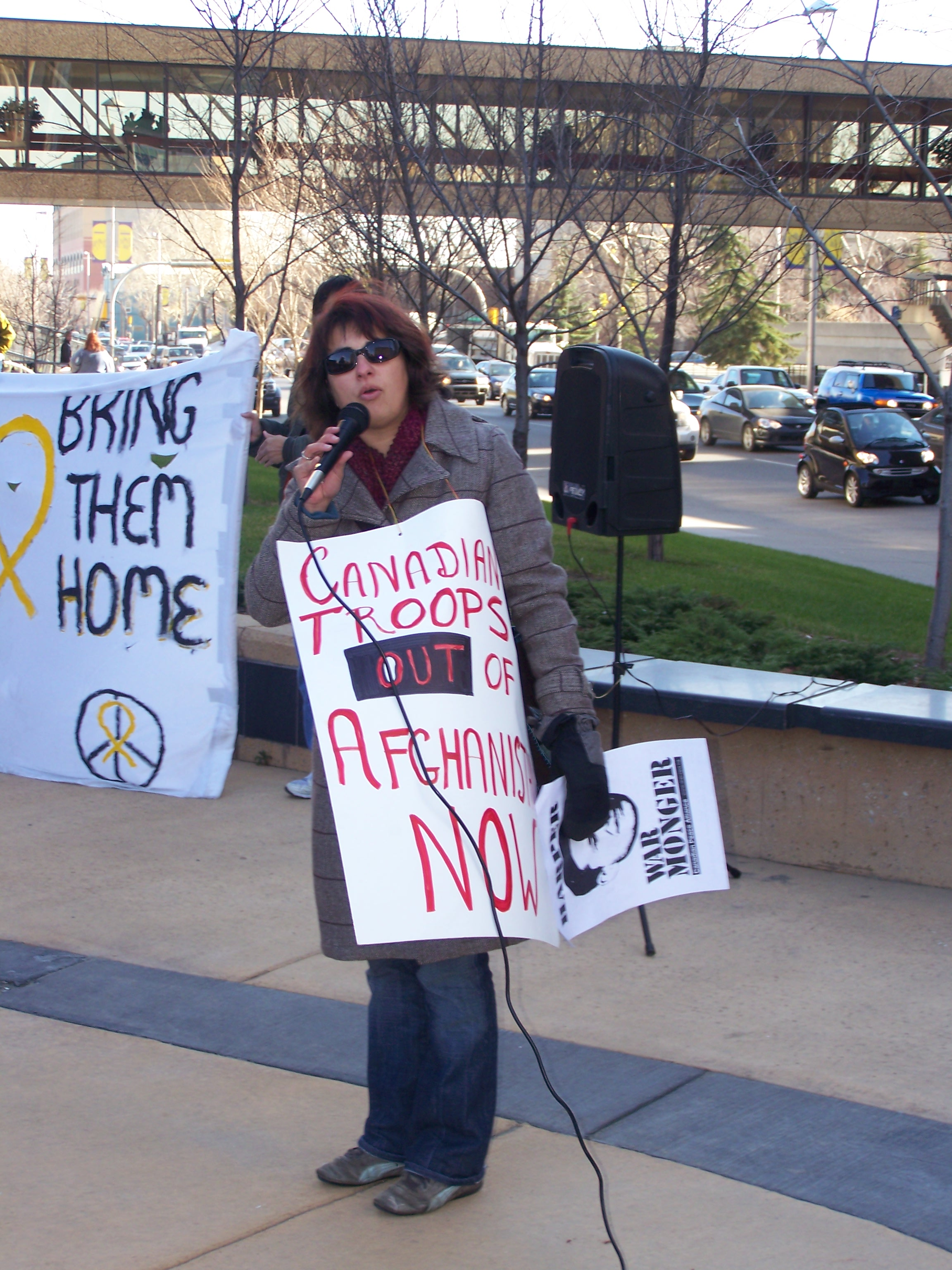 Collette Lemieux with the Canadian Peace Alliance is seen here speaking at a protest outside the Harry Hayes federal building in downtown Calgary, Alberta, Canada. Is was one one multiple such protests across Canada on the "Pan-Canadian Day of Action on Canada's military involvement in Afghanistan".